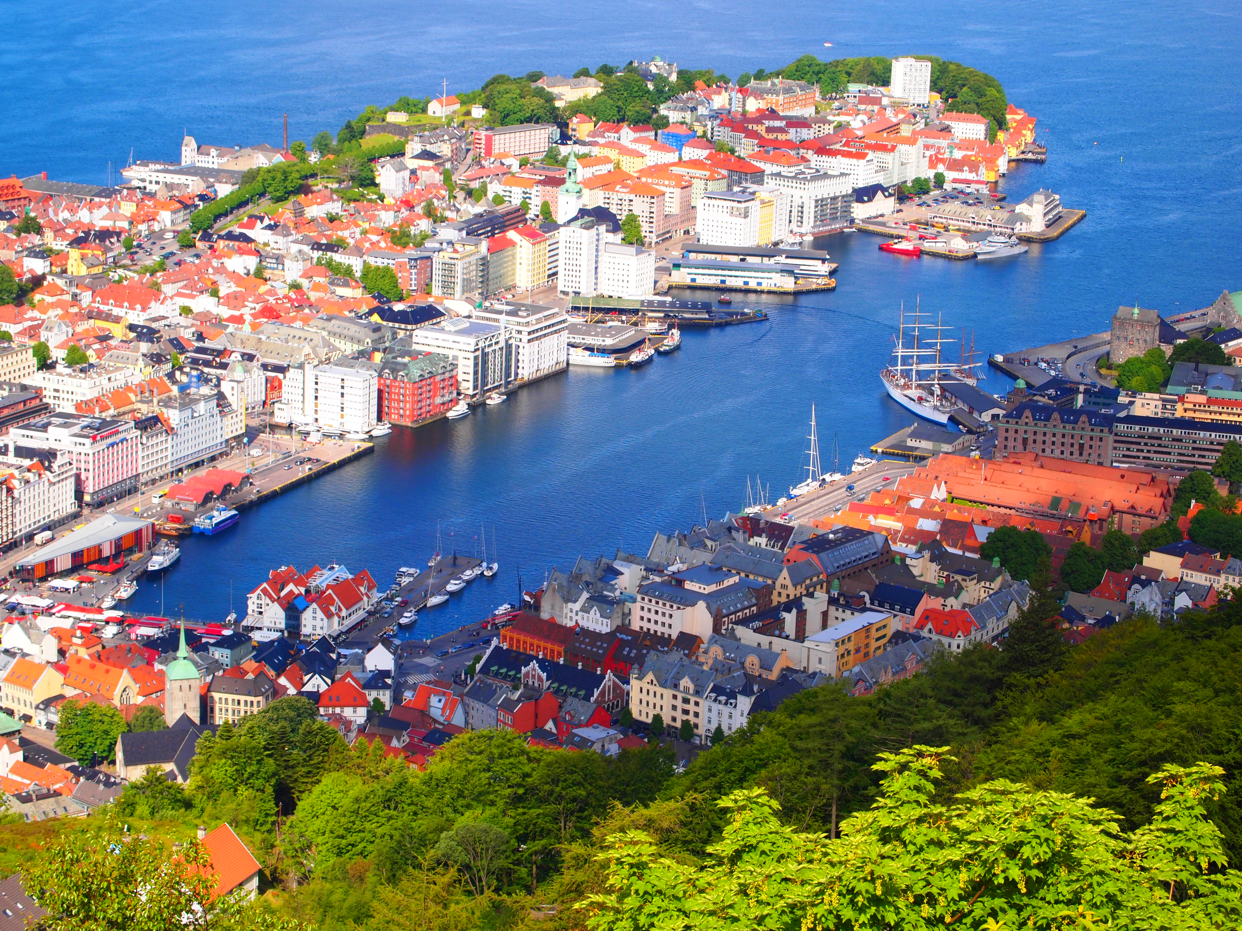 View of Bergen, Norway